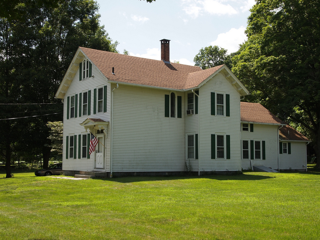 Connecticut - New London County - Bozrah National Register of Historic Places #91000952 NRIS 2011 June 30 view W edit: resize Main part built in 1872; garage (far right) is a 20th century addition